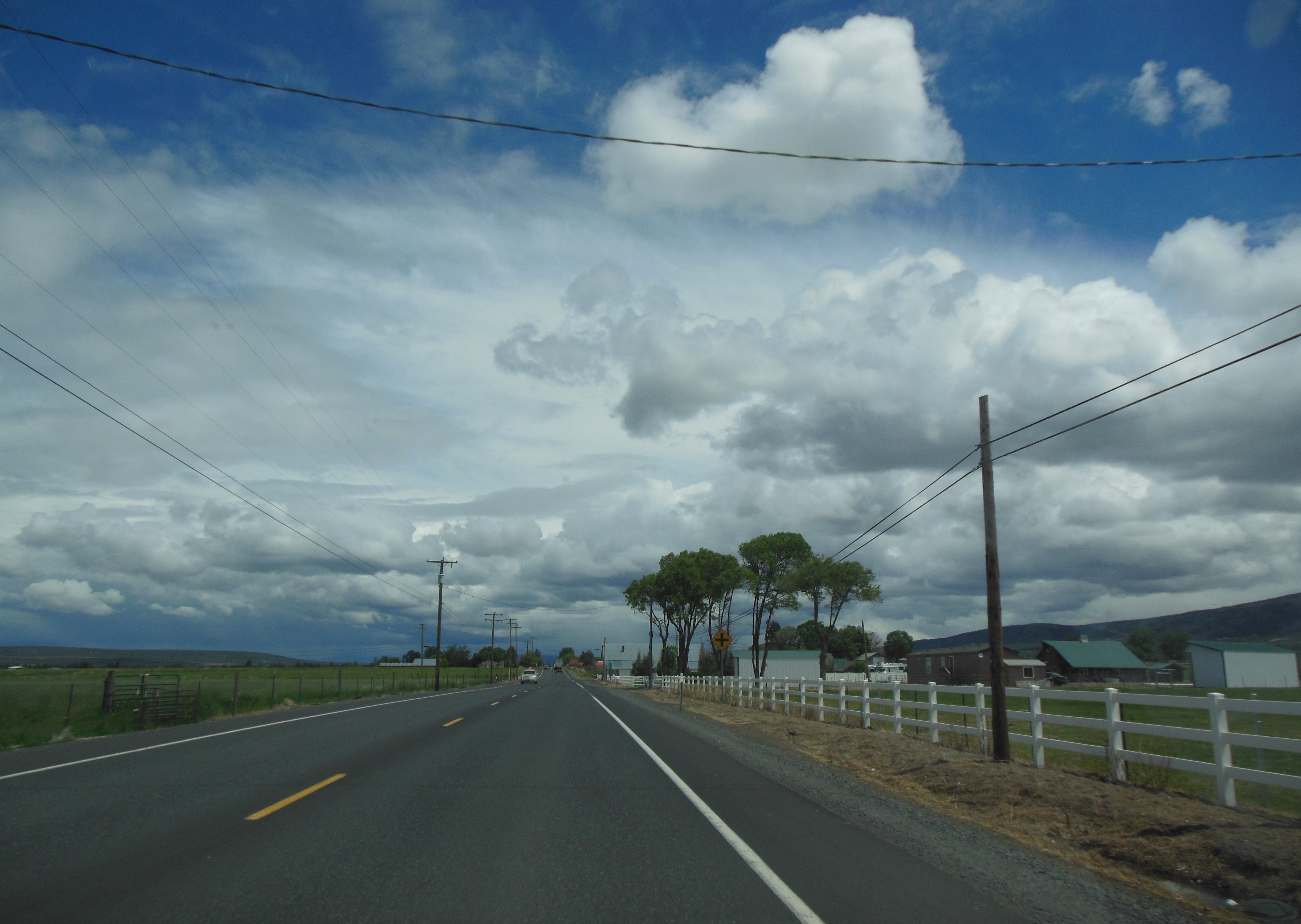 Powell Butte, Oregon, an unincorporated community along Oregon Route 126 in Crook County between Redmond and Prineville